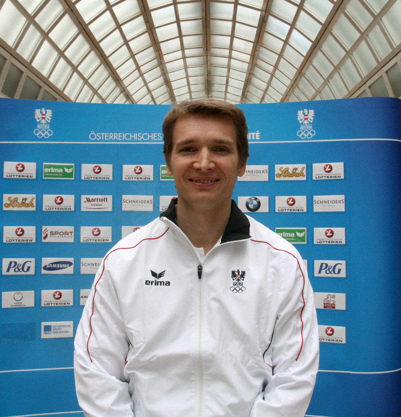 Table tennis player Werner Schlager at the hand-out of the Austrian teams official attire for the 2012 Summer Olympics in London (Marriott, Vienna).